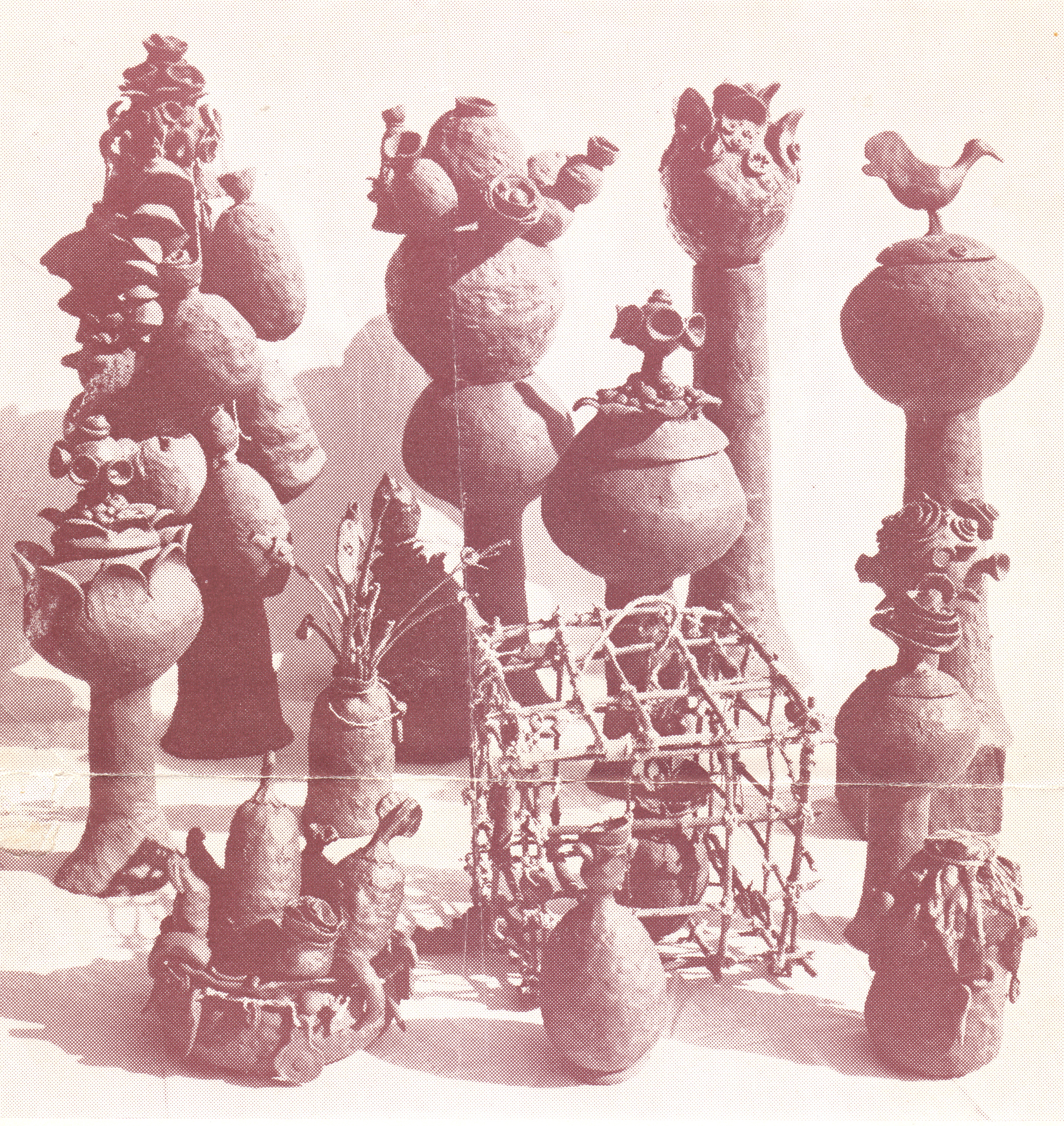 Siona Shimshi: Clay Work, Dugith Art Gallery, Tel Aviv, 21/11/1965 - 12/12/1965